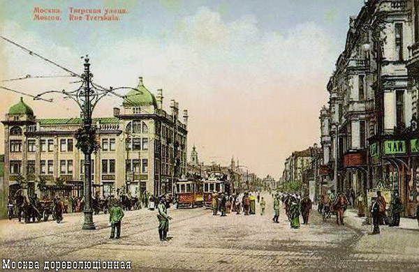 pre-revolutionaty russian postcard of Tverskaya-Yamskaya Street